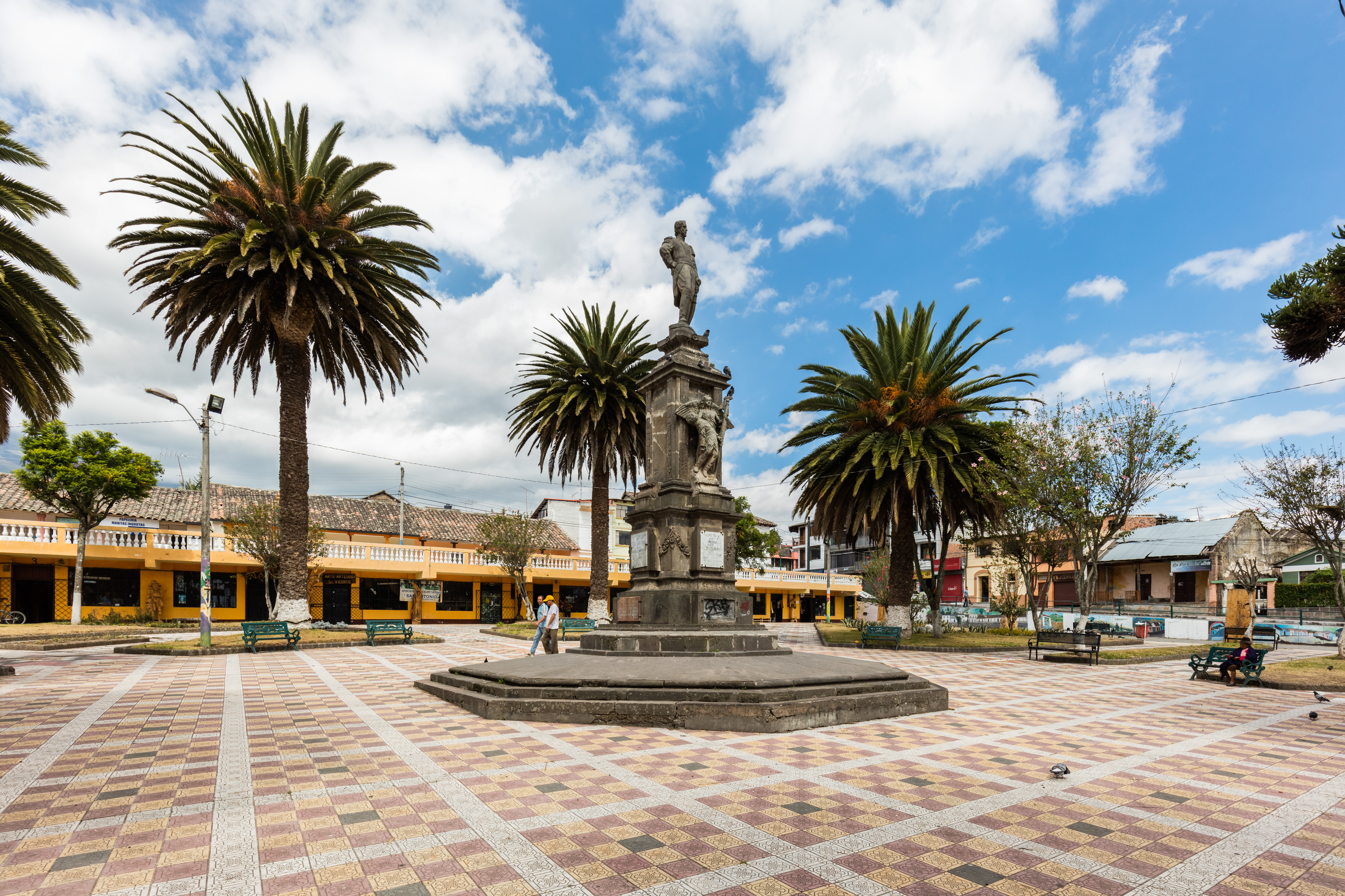 Main Square, San Antonio de Ibarra, Ecuador